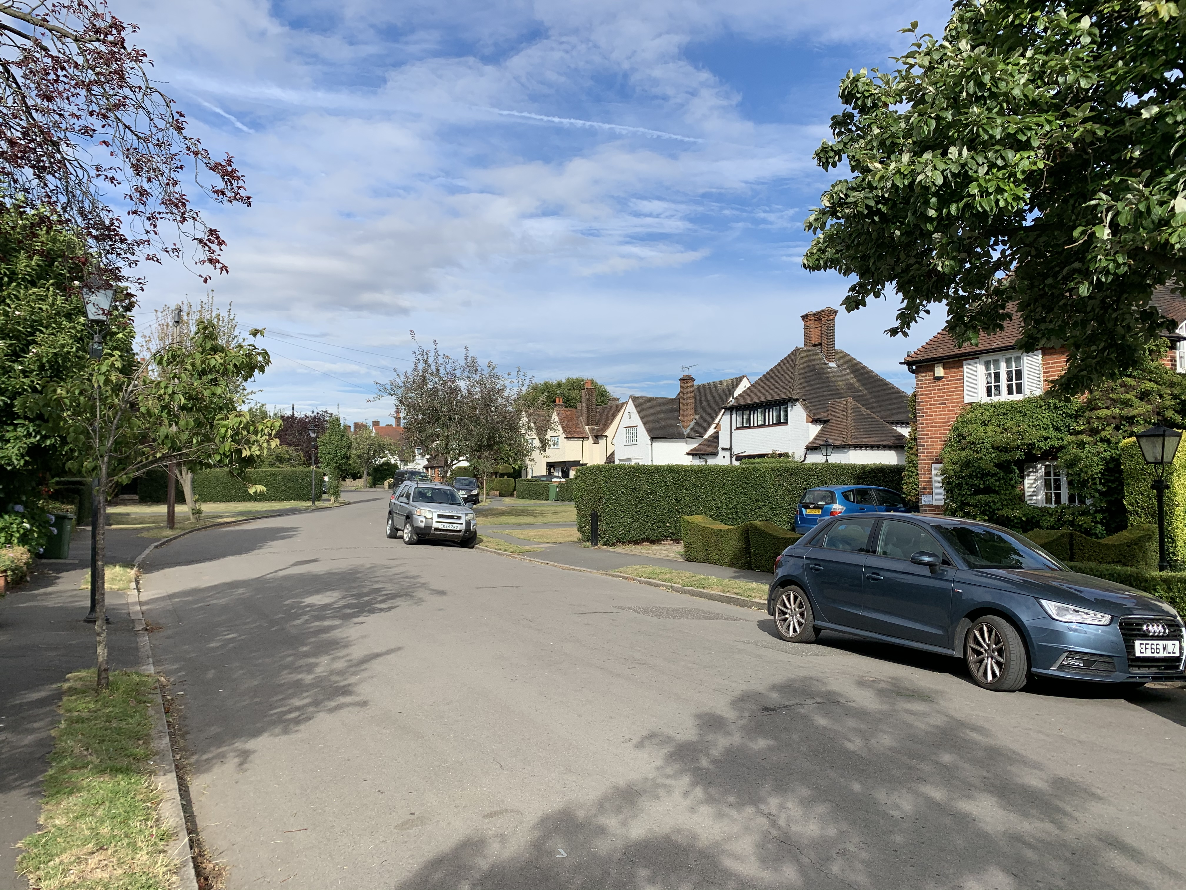 Street scene, Meadway, Gidea Park, Romford, UK